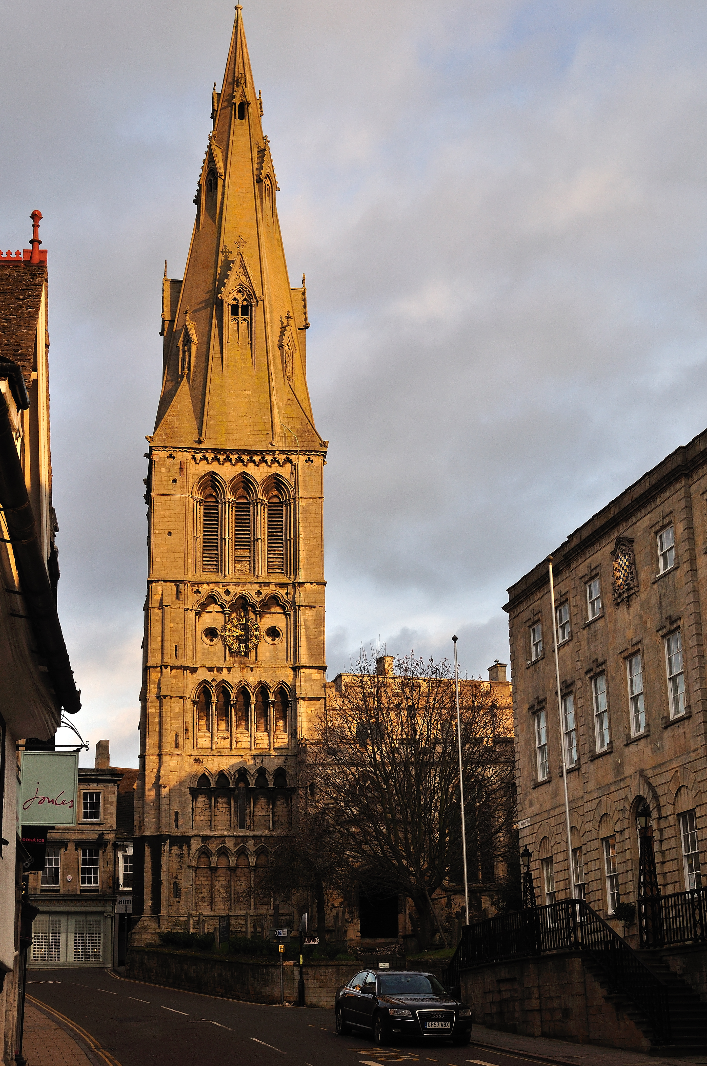 West tower and broach spire of St Mary's parish church, Stamford, Lincolnshire